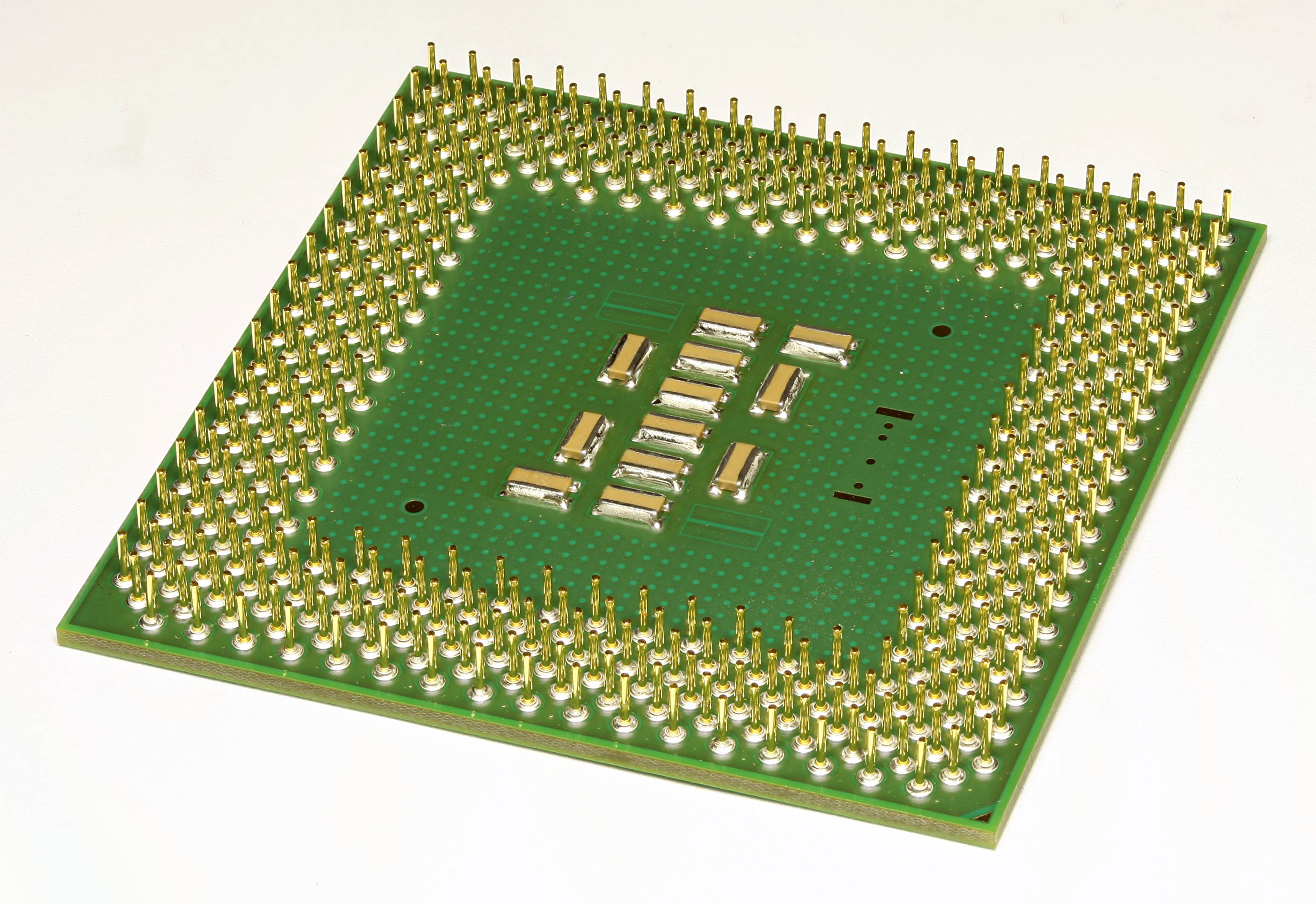 Bottom view of an Intel Pentium III 1100 (RB80526PY005256) CPU